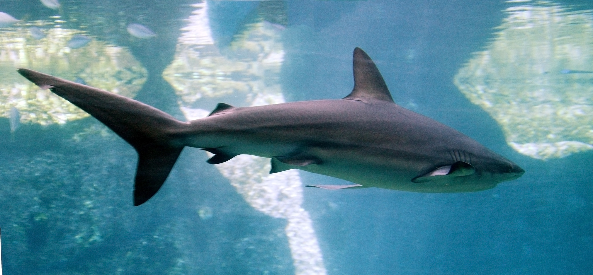 Dusky shark (Carcharhinus obscurus) in UShaka Sea World